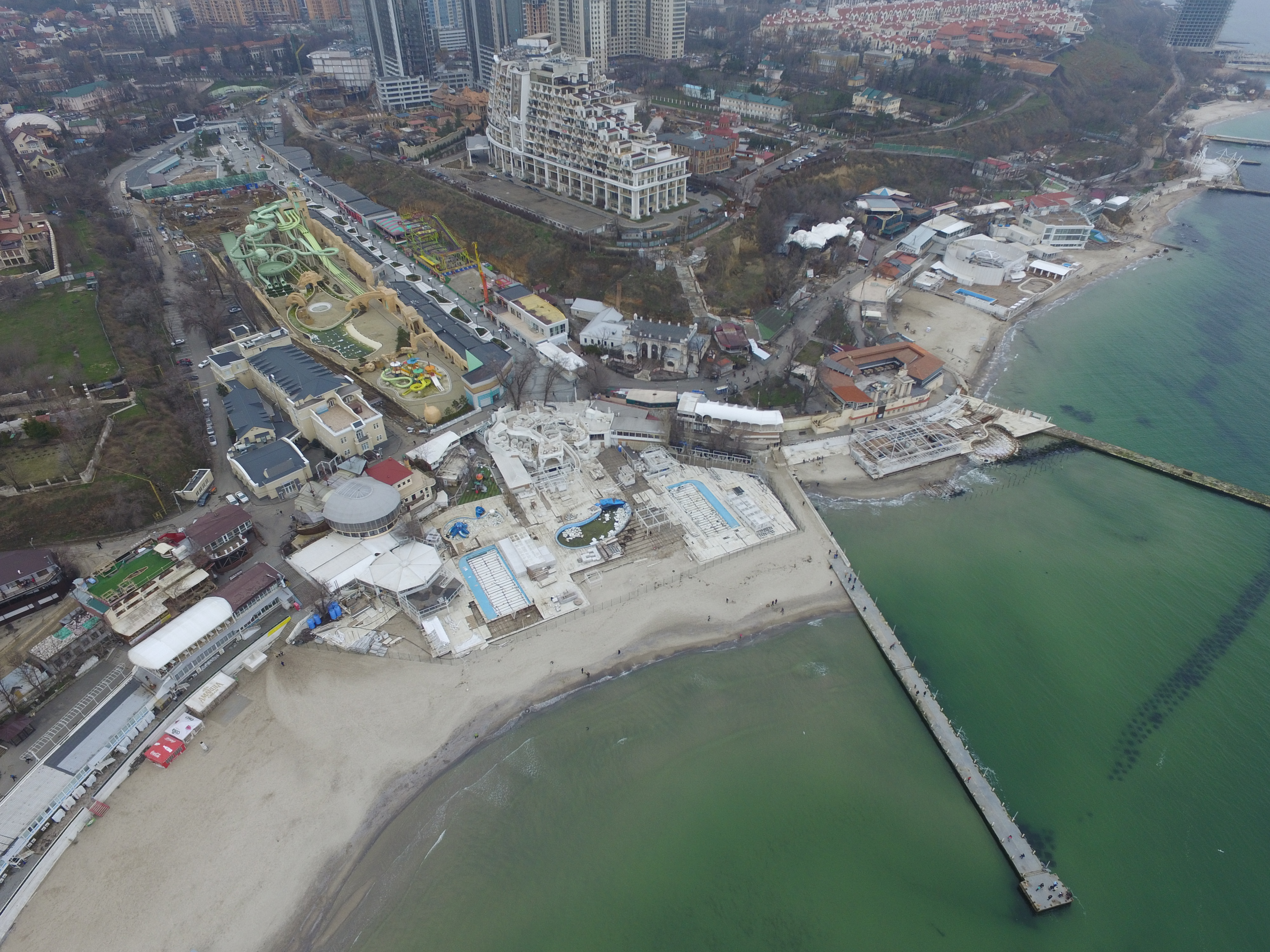 Arcadia beach in early spring 2016, aerial view